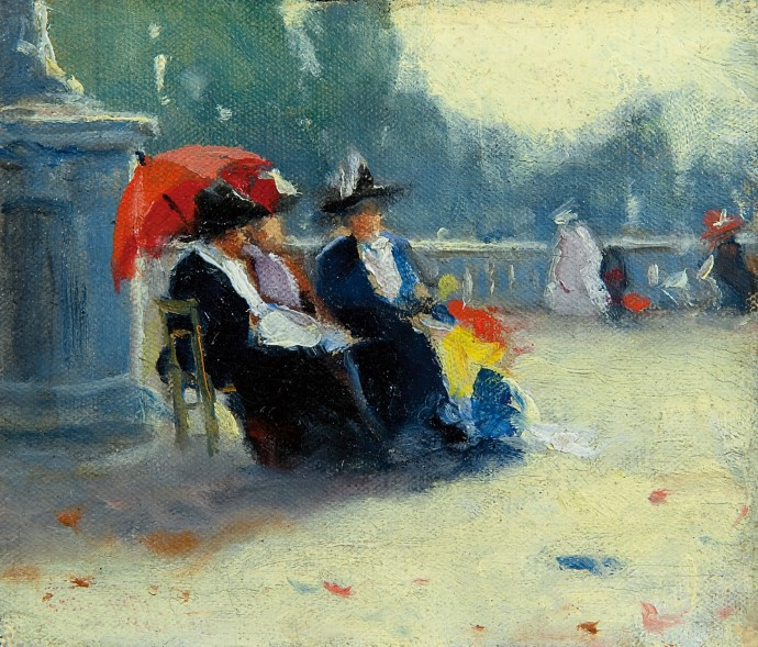 Vriendinnen in de Jardin du Luxembourg